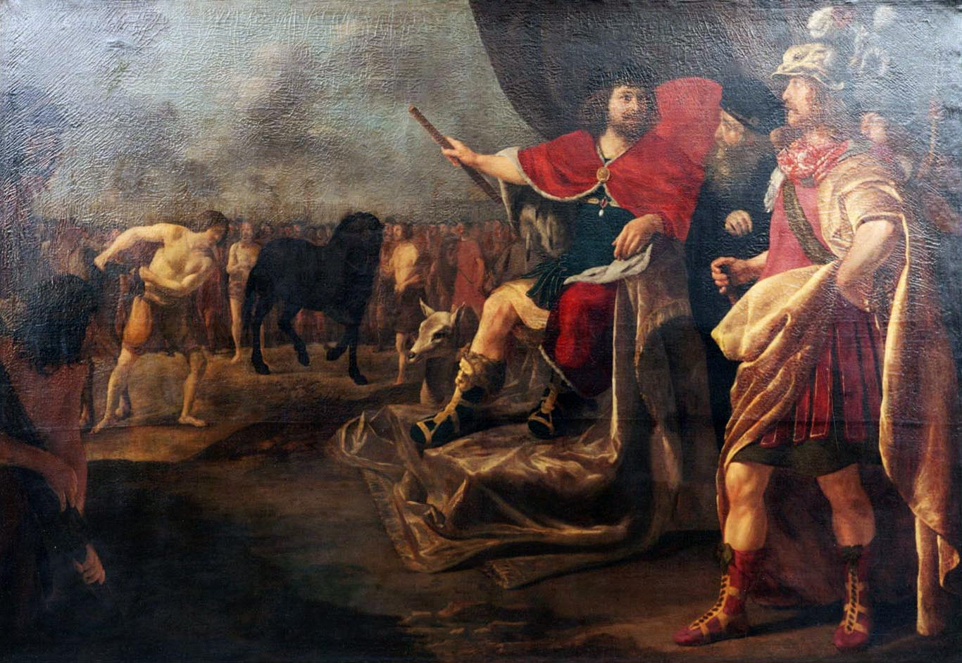 Allegorical representation of good government showing "perseverance over violence". This is the story of Quintus Sertorius: You can better pull out a horse's tail hair by hair than all at once. The scene is somewhat reminiscent of a bullfight. This image is available from the Netherlands Institute for Art Historyunder digital ID 1267. This tag does not indicate the copyright status of the attached work. A normal copyright tag is still required. See Commons:Licensing.